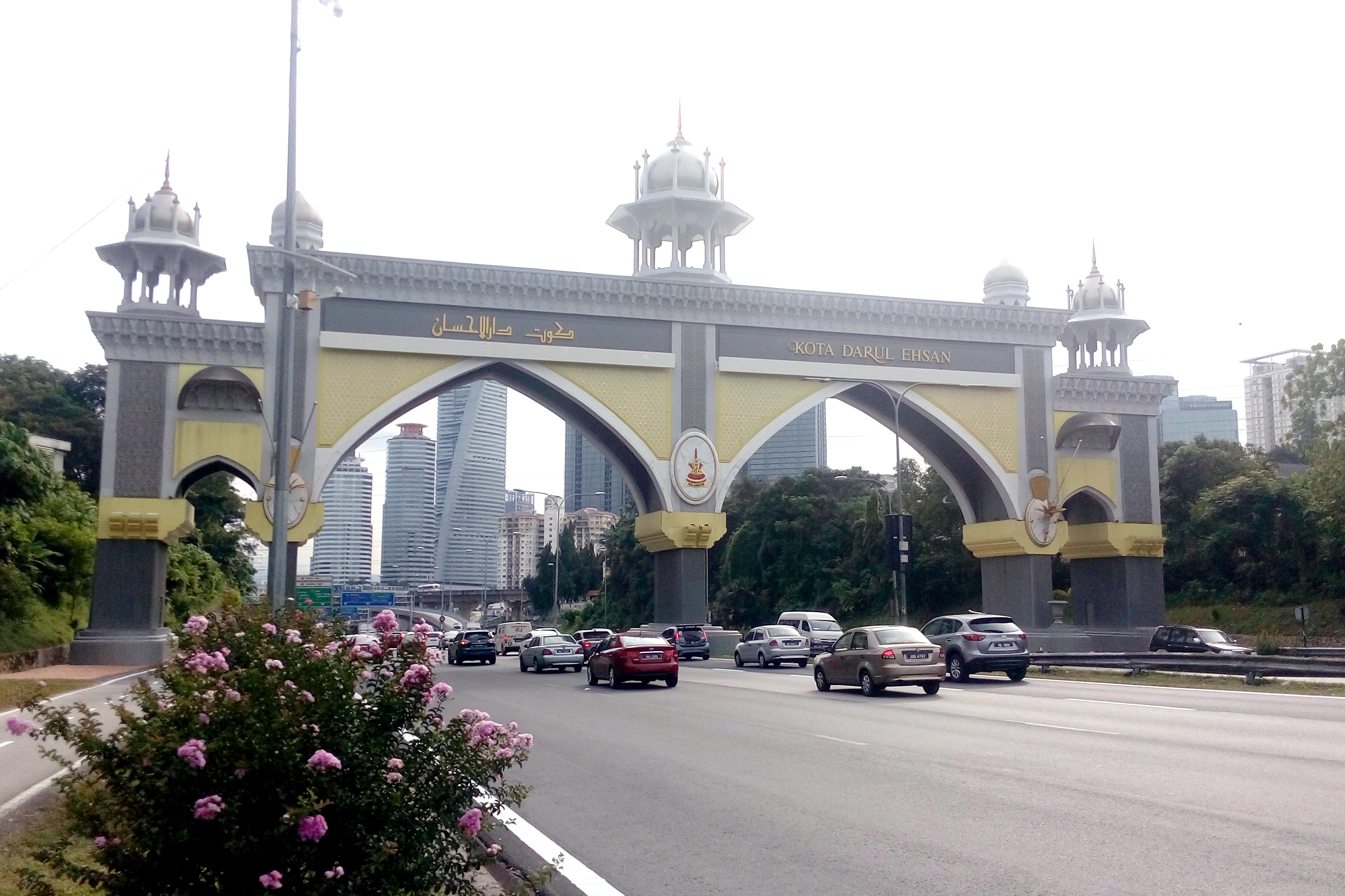 Darul Ehsan Arch